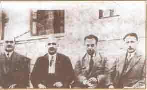 Ankara Independance Court Members: Kılıç Ali Bey (Gaziantep), "Kel" Ali Bey (Afyonkarahisar), Necip Ali Bey ve Reşit Galip Bey (Aydın). This special court members were from the Grand National Assembly of Turkey.